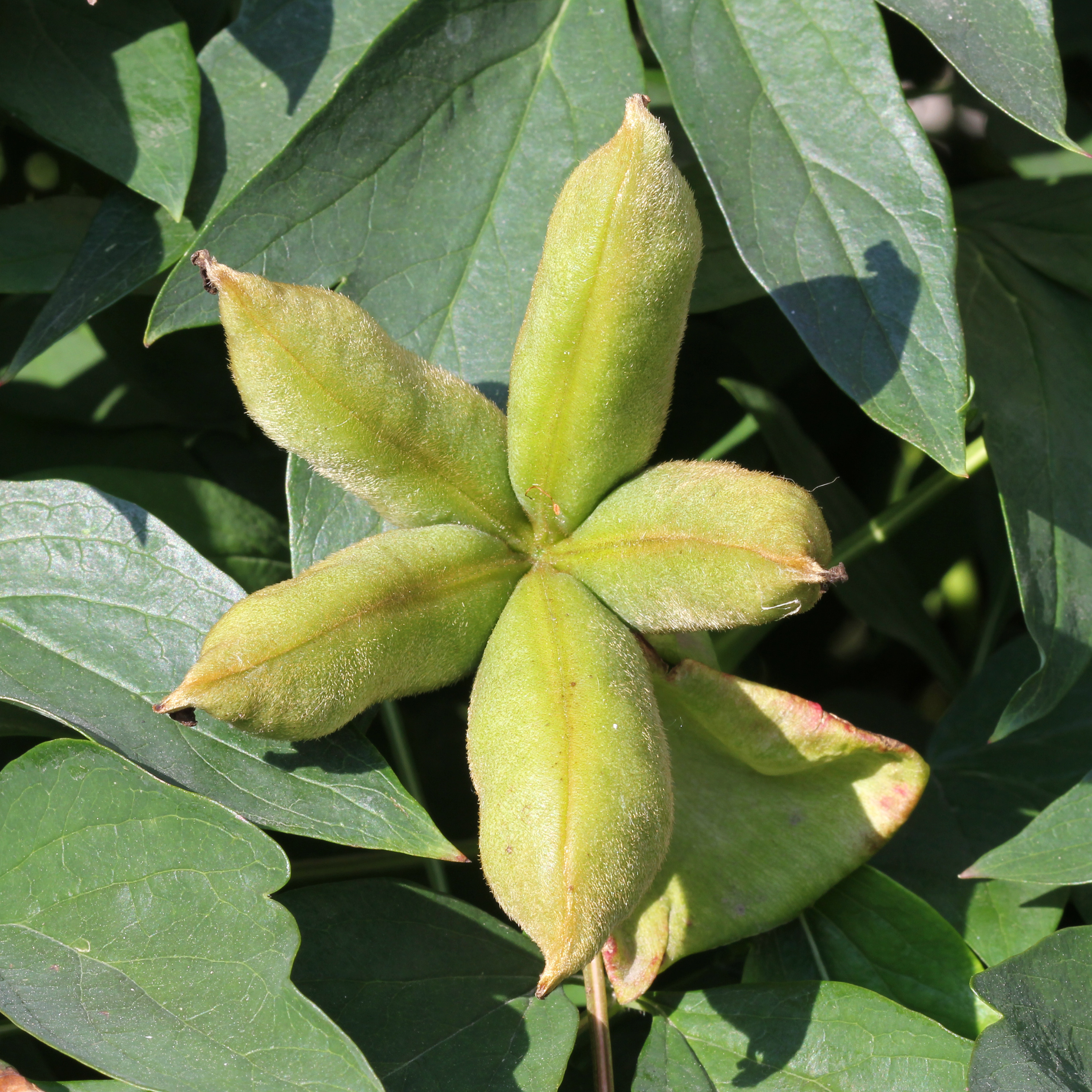 Rock's tree peony (Paeonia rockii), unripe fruit. The plant is grown up in a garden. Ukraine.